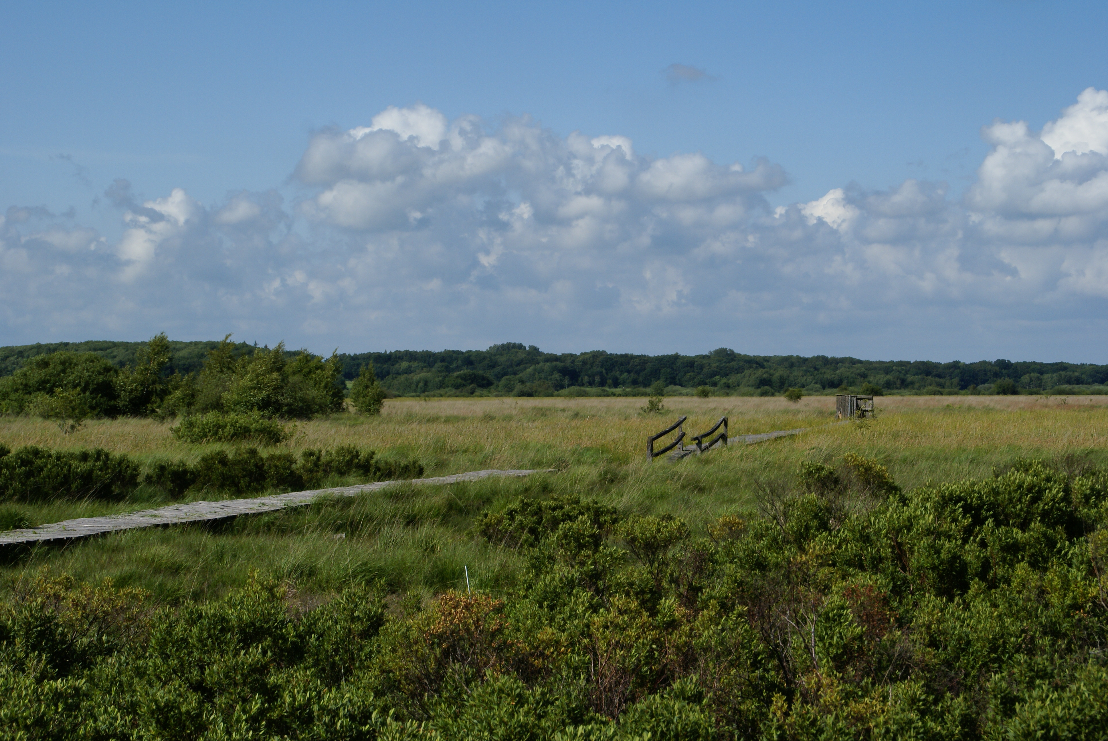 elevated nature trail, "Wildes Moor" mire, Schleswig-Holstein, Germany